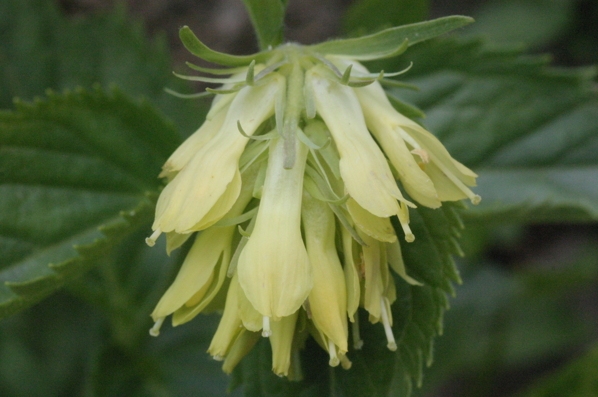 Paederota lutea